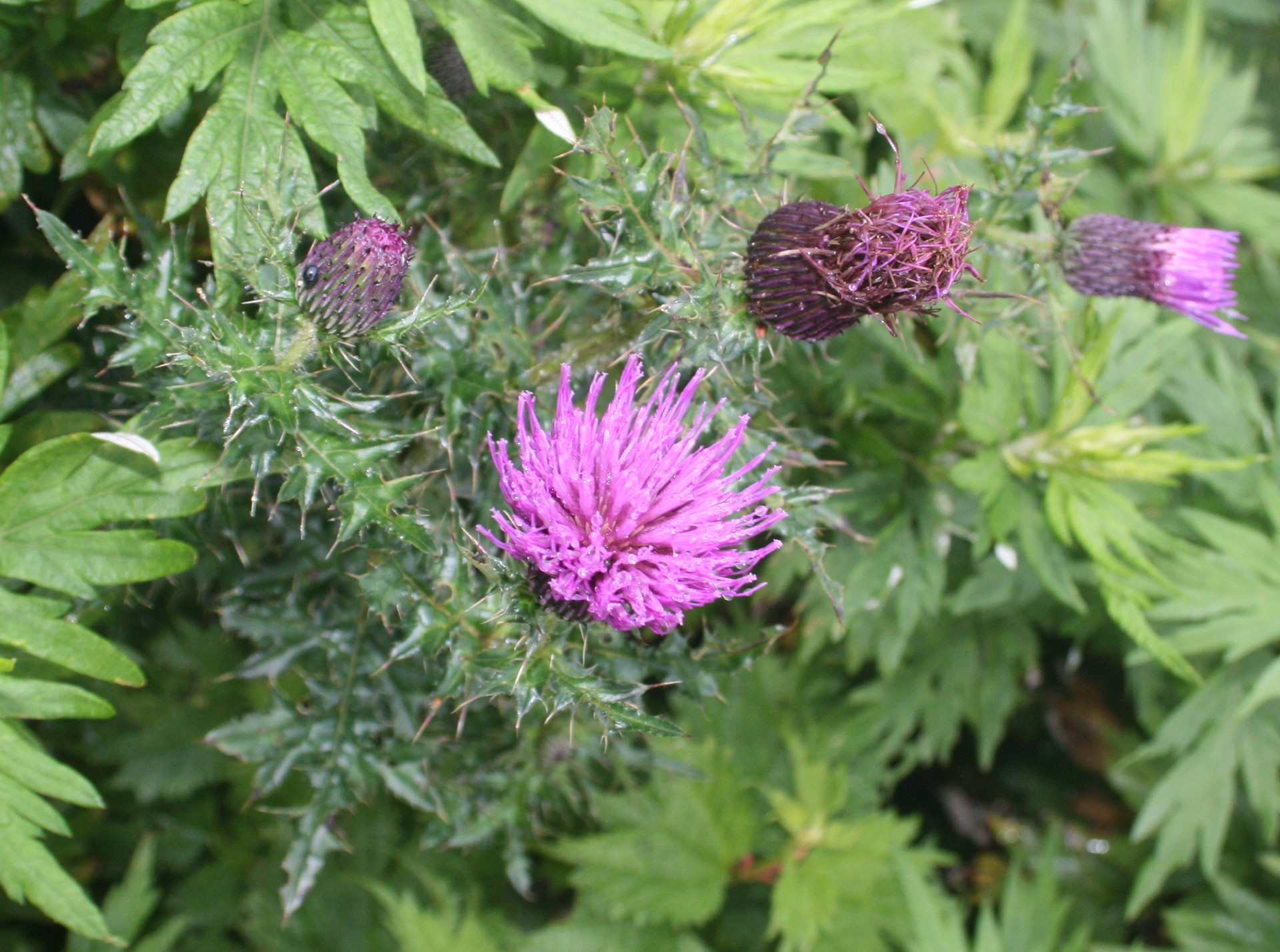 Cirsium japonicum var. ibukiense